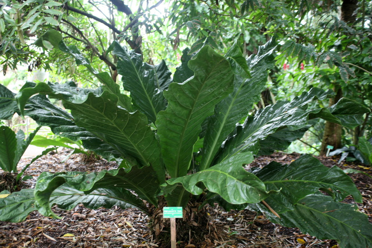 A beautiful foliage Anthurium native to Mexico and Belize. This is an exotic tropical plant that is widely grown for its beautiful leaves. Easy to grow from seeds and makes an excellent container plant that is easily cared for. In native region this is a rainforest medicine plant that was commonly used by the ancient Maya culture in Central America to treat pain and swelling in muscles and joints, rheumatism, backaches, etc. The Maya Indians in Belize still use the leaves in their steam bath rituals.